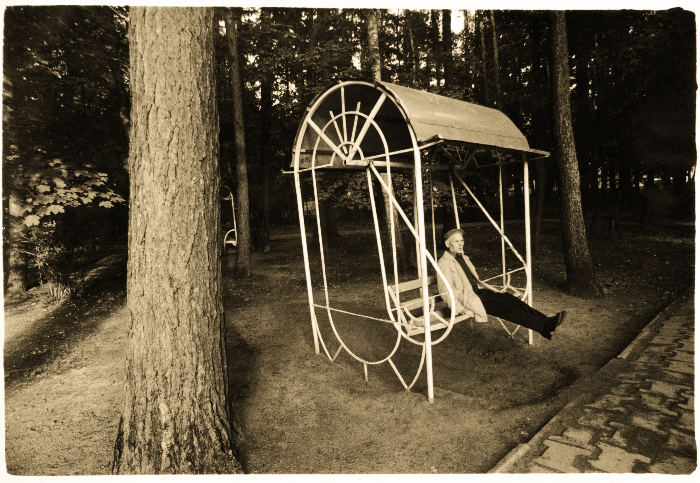 Aleksandras Ostašenkovas, Kitas krantas No134, Lithuania